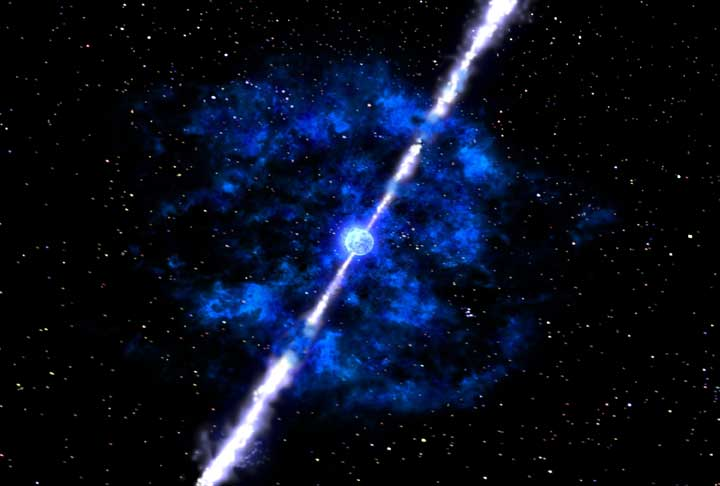 The artist's impressions of a GRB.